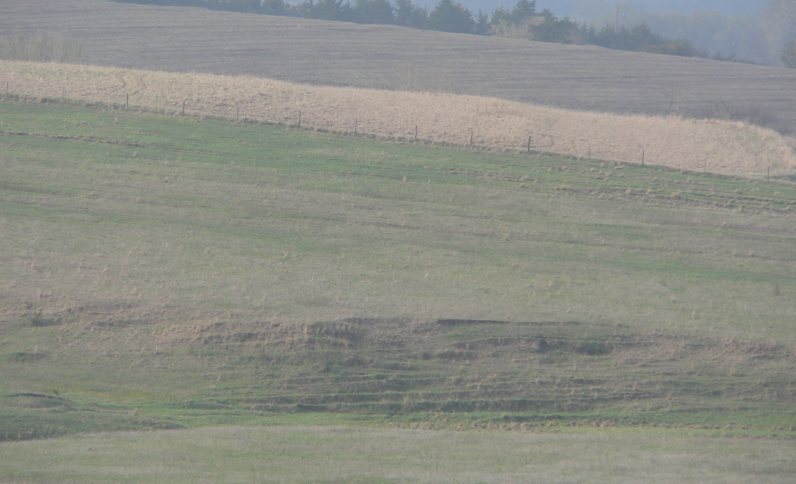 Third (third-easternmost) in a series of seven photos following the descent of the Woodbury Cutoff westward to Oak Creek in rural southeastern Butler County, Nebraska. Camera was facing generally southward from about half a mile north of the descent ruts, on county road 27 about halfway between roads U and V. The descent ruts can be seen as parallel striations in the ground, roughly parallel to the fence and lying between the fence in the background and the deeply-eroded swale in the foreground.